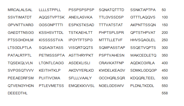 Podocalyxin peptide sequence.